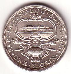 Scan of my own coin. Pre-decimal 1927 Australian commemorative florin, commemorating the opening of Australian Federal Parliament House in Canberra, Australian Capital Territory, Australia - visual reference Australian copyright only applies to money after 1969 [1]